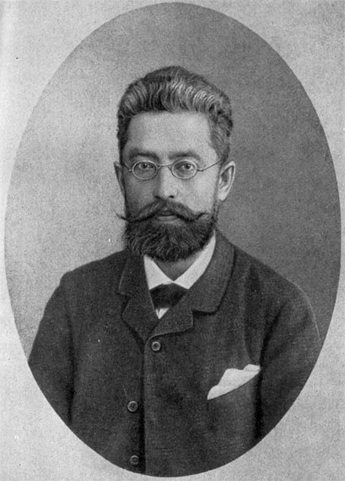 Viktor Khrisanfovich Kandinsky